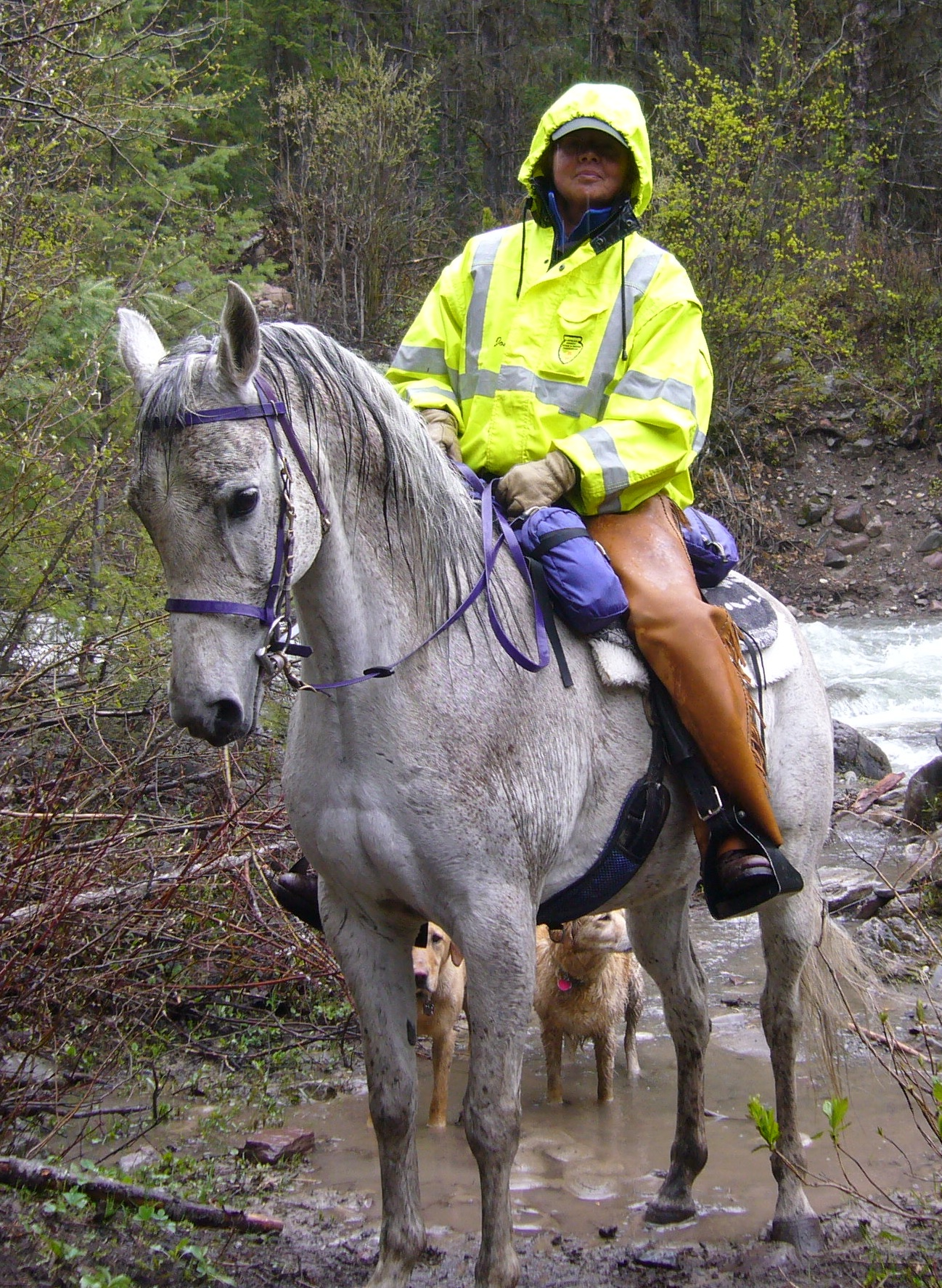 Mounted search and rescue training of rider, horse, and dogs.